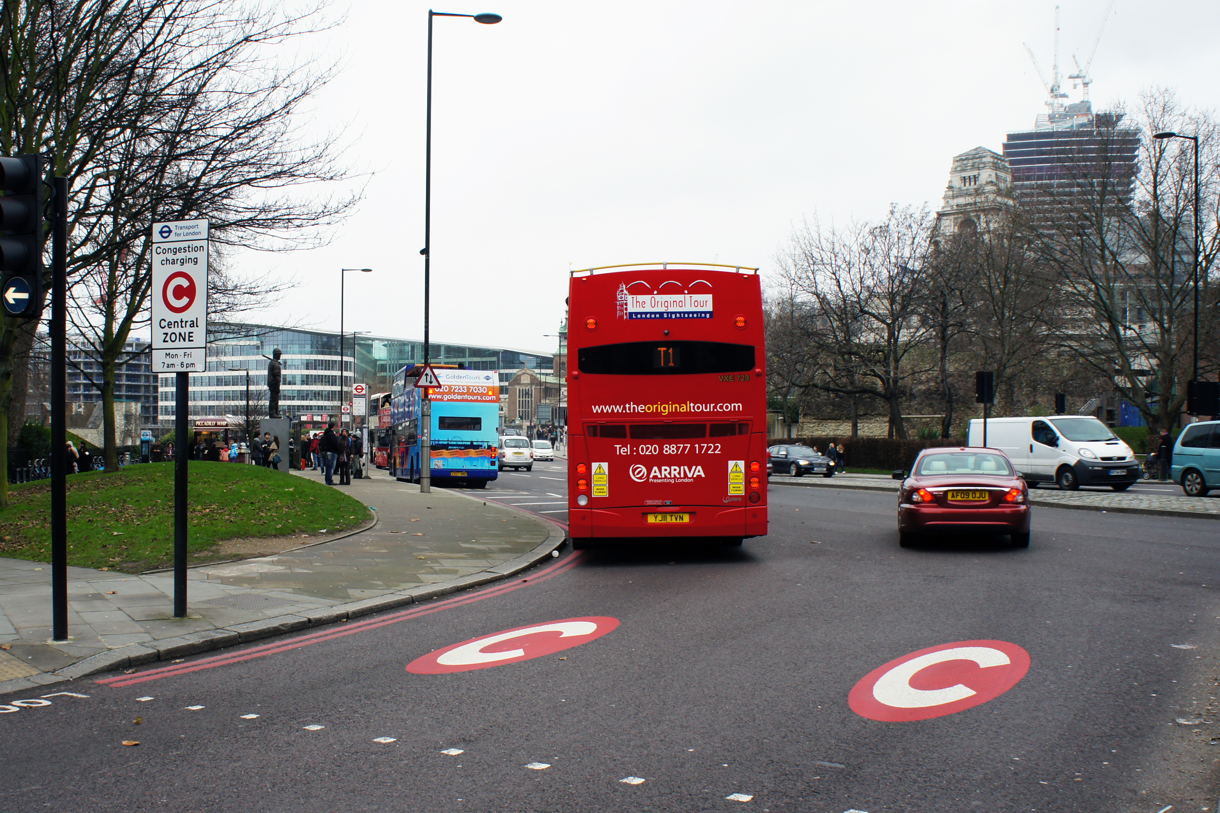 Pavement markings at the Tower Hill (A100) entrance of the London Congestion Charge Zone